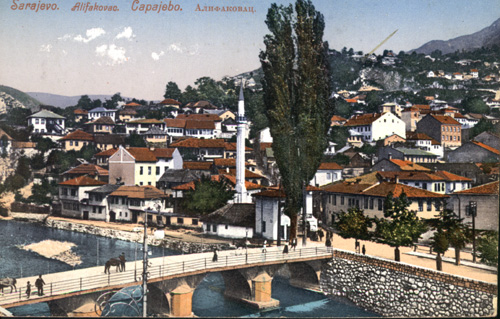 Picture of Alifakovac, showing the cemetery and sourrounding part of Sarajevo